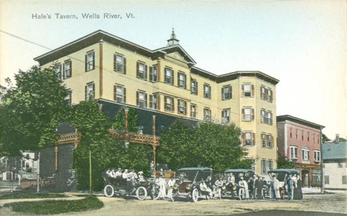 Hale's Tavern, Wells River, Vermont; from a 1915 postcard published by Hale's Tavern, Wells River, Vermont. It was built in 1895 to replace the Coosuck House, an old hotel which burned three years before. Hale's Tavern was torn down in 1956. Was Owned by John Necelson Sakelaris who sold it to the Gulf Oil Company in 1956.